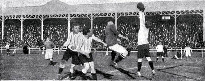 Scene of the match Argentina national team vs. Swindon Town F.C., played at GEBA.